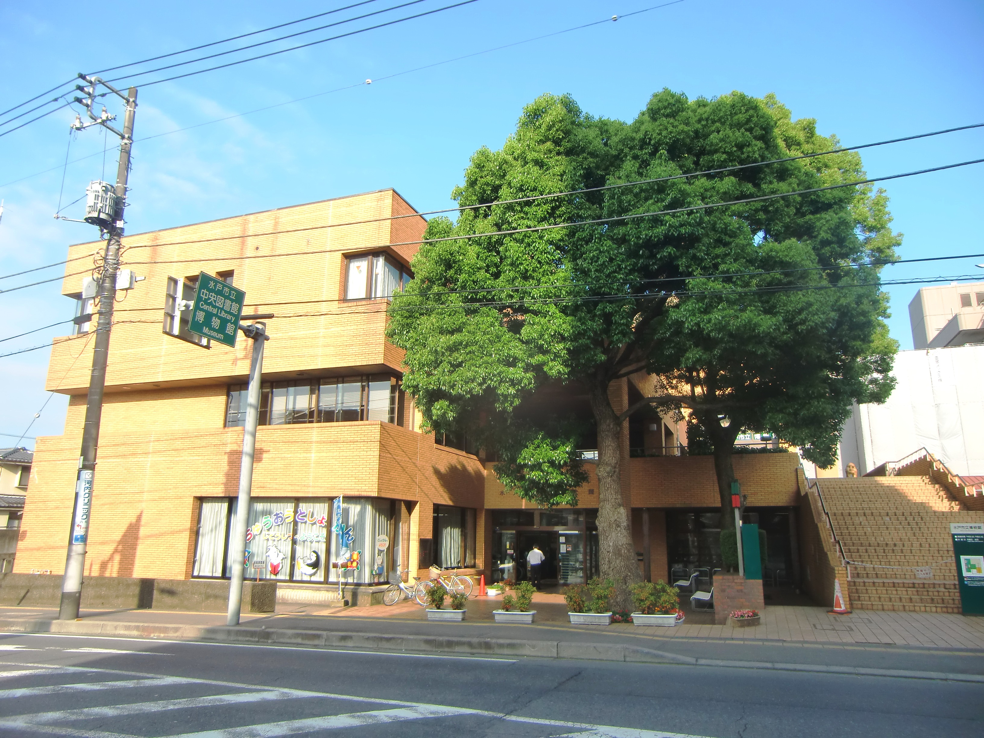 Mito City Central Library & Mito City Museum in Mito city, Ibaraki prefecture, Japan.